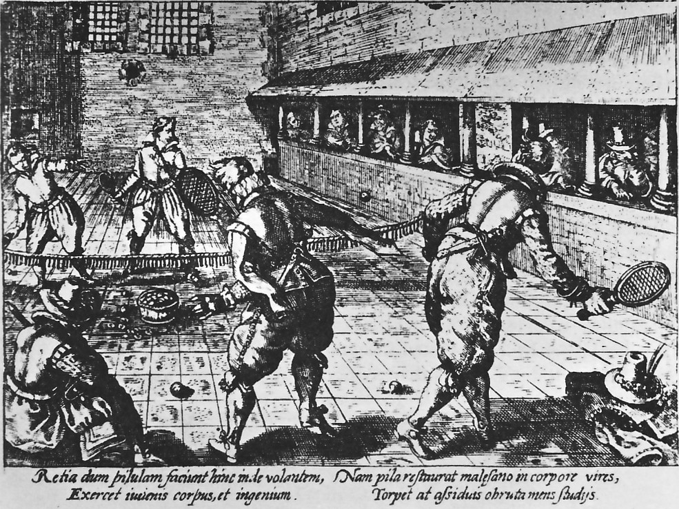 Students playing Tennis at Strasbourg, 17th century